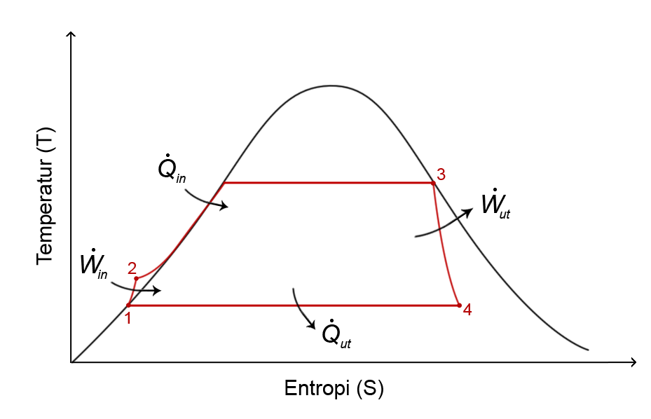 Swedish TS (Temperature vs. entropy) diagram of a basic Rankine cycle